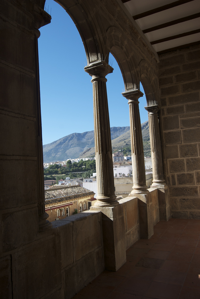 Catedral1